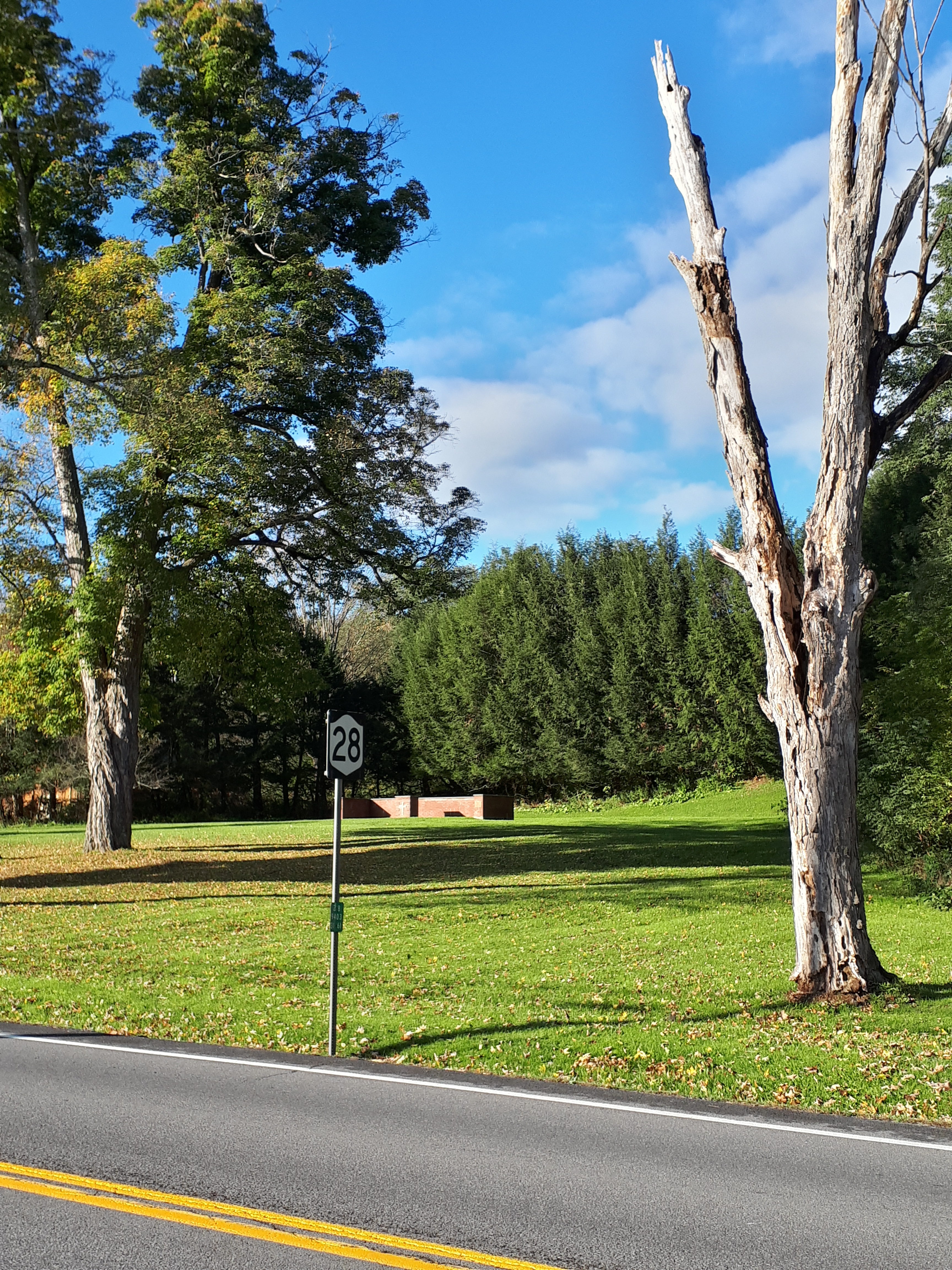 View of the site from NY Route 28.